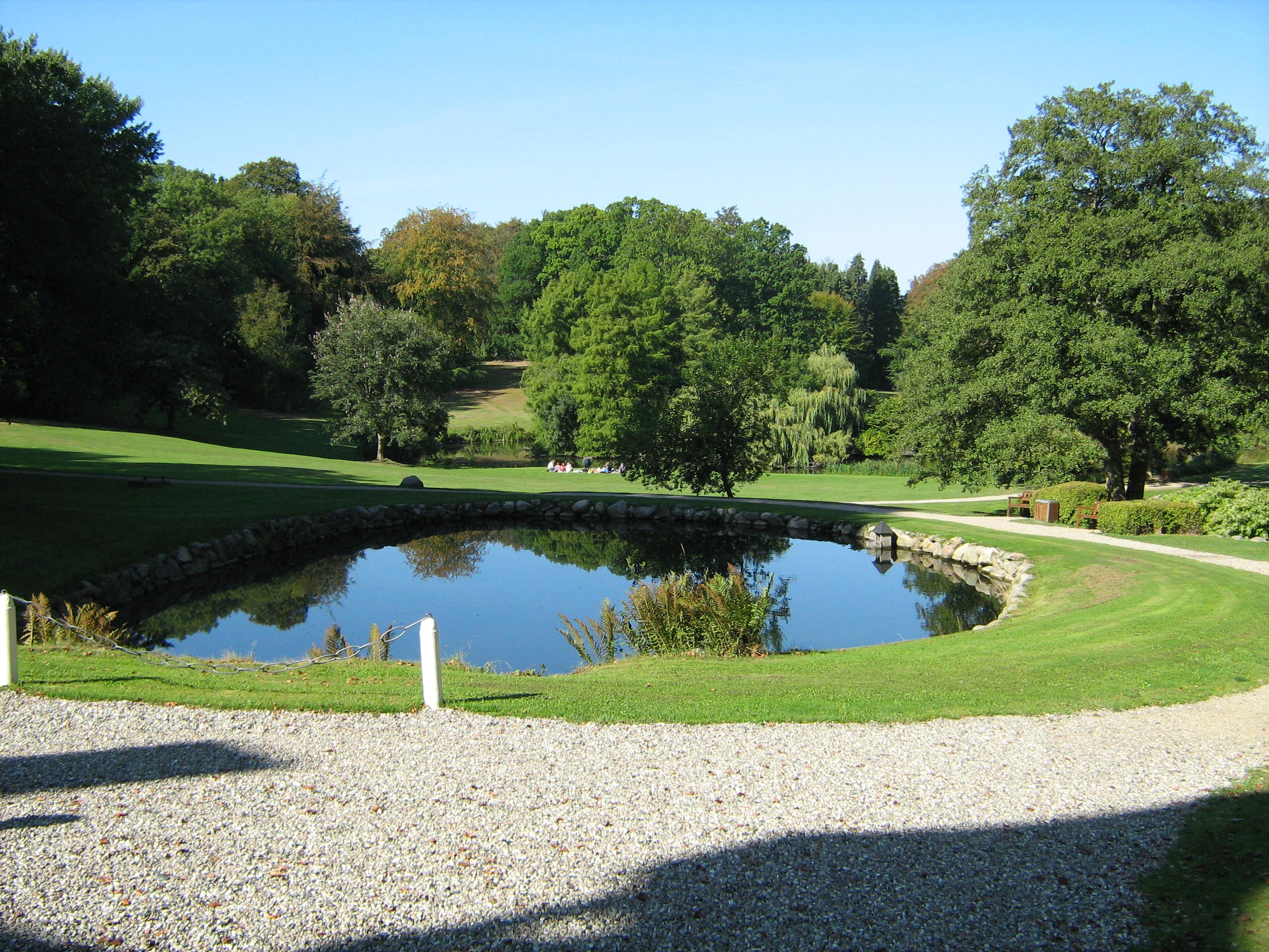 Liselund, Møn, Denmark. The park viewed from the south.